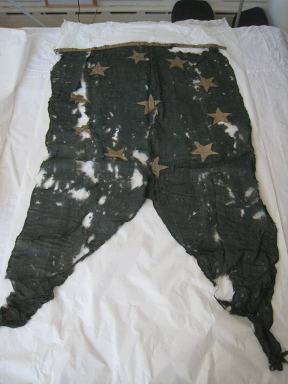 Accession 2011-10-1 Flag, Personal, Admiral Buchanan 35"W x 60"L The flag an Admiral's personal flag was recently processed in a project to catalog backlog items in the Curator Branch collection.This flag belonged to Admiral Franklin Buchanan. He was appointed an Admiral in August 1862 and commanded Confederate forces at Mobile Bay Alabama. The flag was in a very poor condition, fragile and dirty. The flag was sent to a conservator because of its historical significance. This photograph was taken prior to the conservation work beginning by the conservator. Collection of Curator Branch, Naval History and Heritage Command.